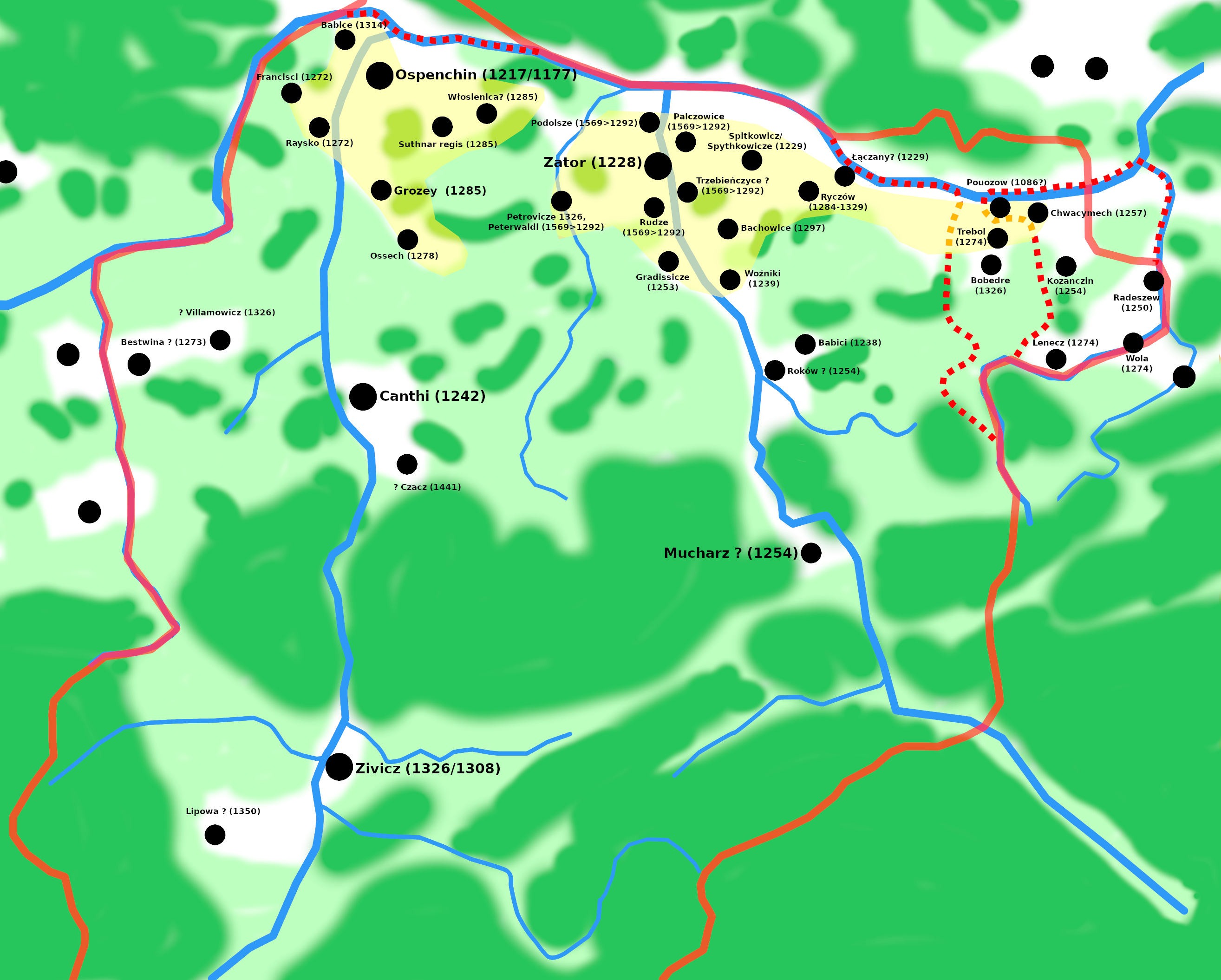 Settlements in the the Castellany of Oświęcim/Auschwitz in the 13th century based on: Rafał Malik: Oświęcim.Charakterystyka układu lokacyjnego miasta oraz jego rozwój przestrzenny w okresie średniowiecza. Kraków: 1994. p. 5. (with some corrections and additions). dark green: current forests; light green: forests or uninhabited areas in the 13th century; light yellow: most densly settled aread along the salt road